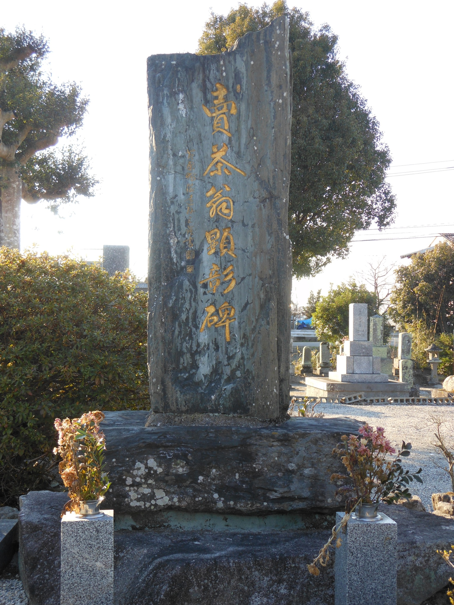 A honoring monument for Baisaō, a Buddhist monk, who helped to popularise sencha around Japan, at Ryūshin-ji Temple in Kose, Saga City.